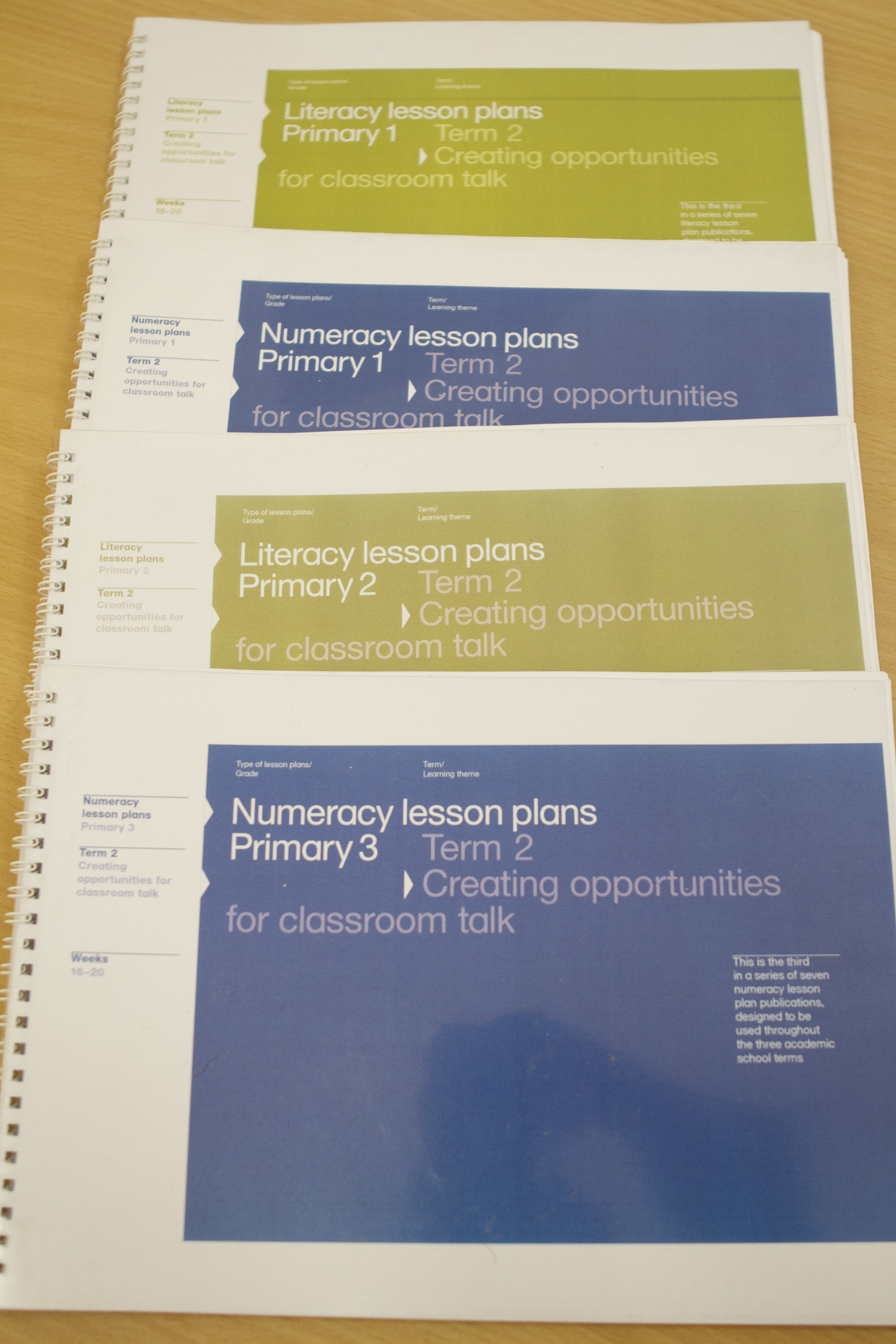 lesson manuals for elementary school teachers in Kwara State public school